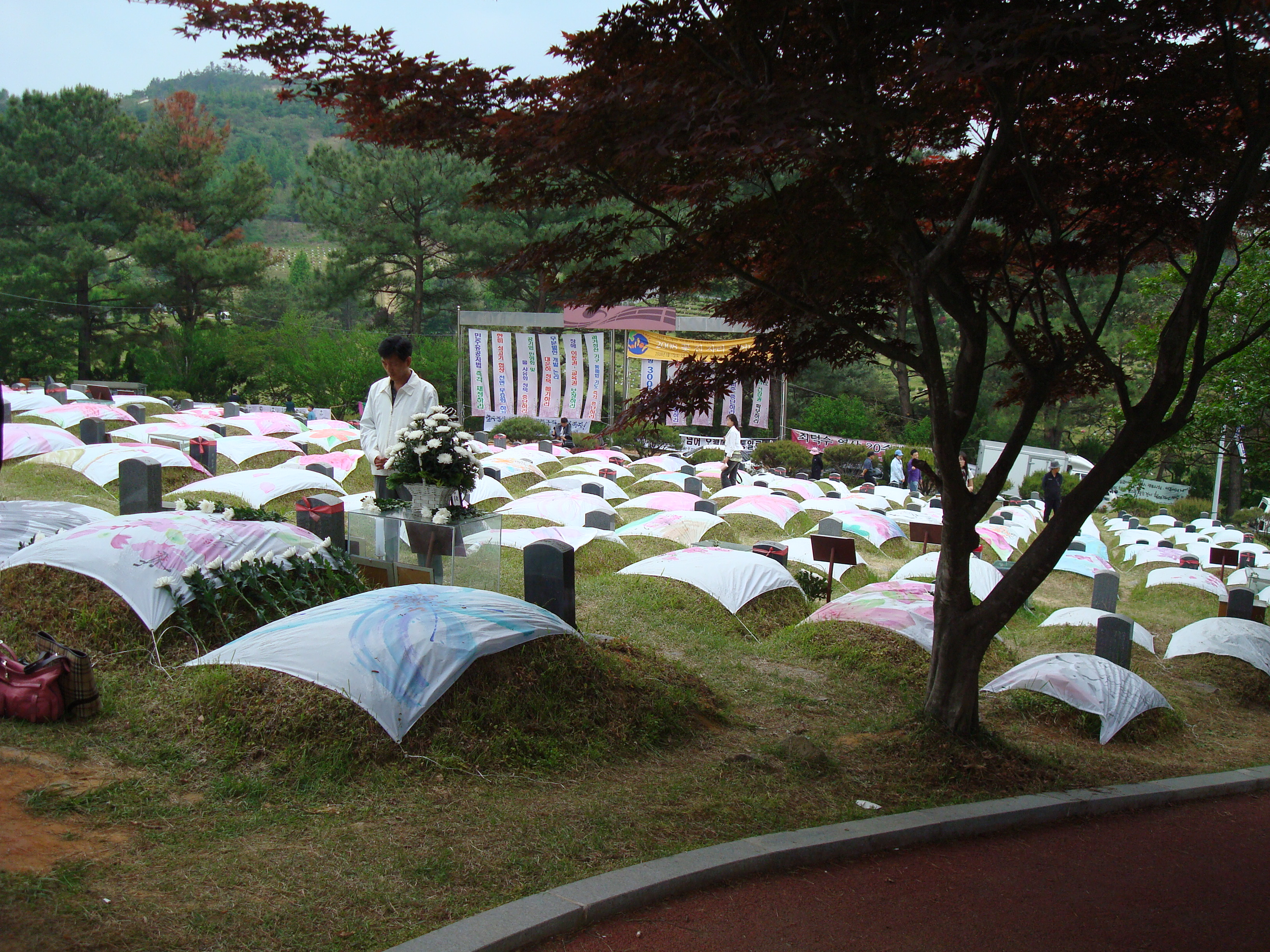 Mangwol-dong cemetery in Gwangju where victims' bodies were buried.